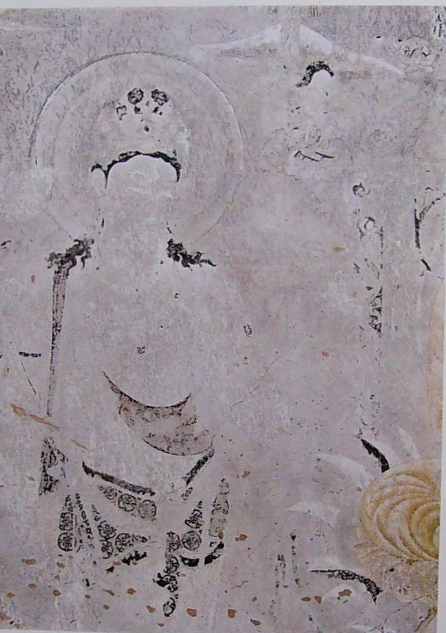 Horuji Temple Wall Painting , Upper Left Part of the 6th Panel. Scorched by Fire in 1949 Jan, 24th.